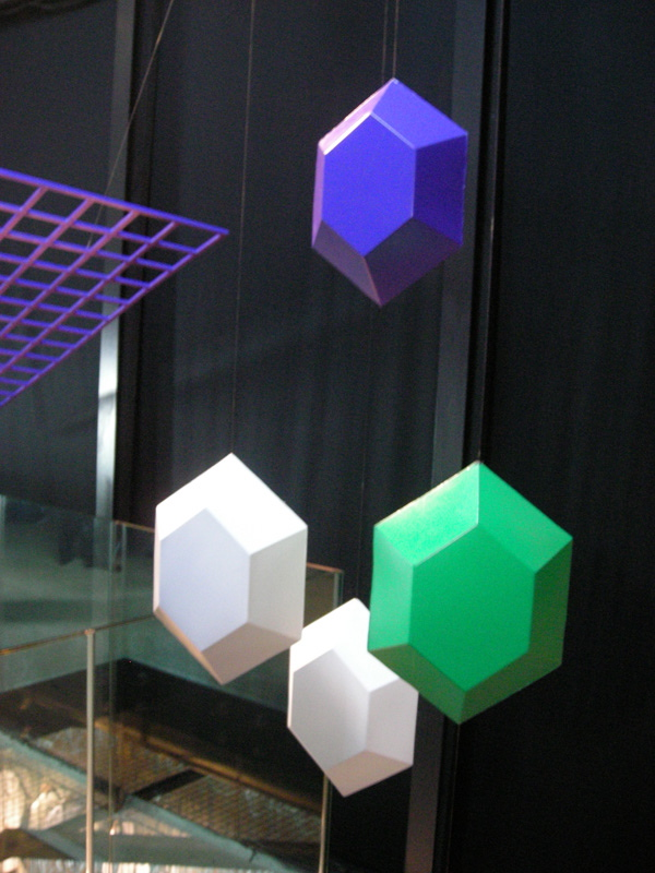 The currency, rupees, from The Legend of Zelda. Found at Diesel Denim Gallery, Aoyama, Tokyo, Japan.